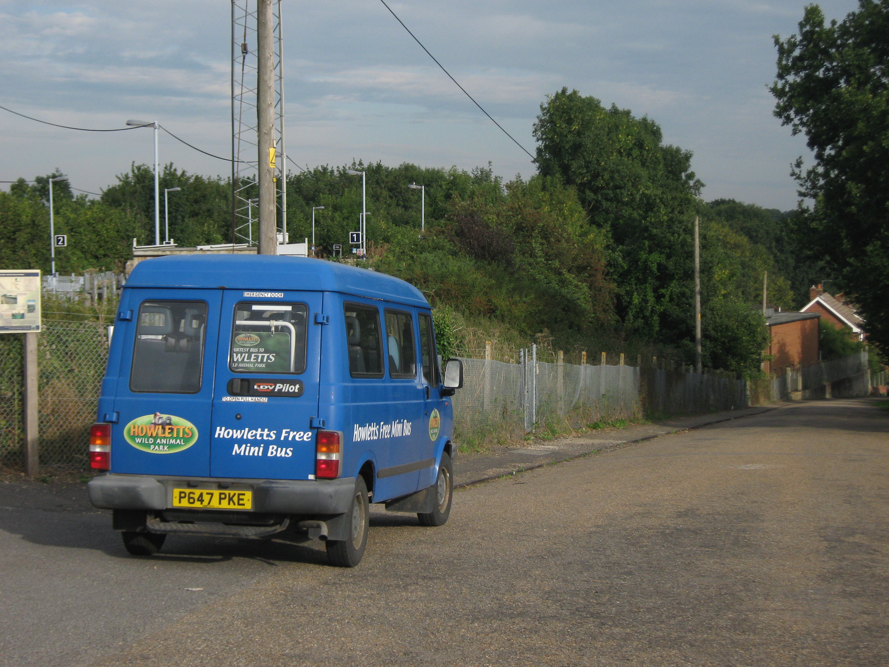 Howletts Free Mini Bus near Bekesbourne Railway Station, Data from Geograph: Description: This mini bus carries passengers to and from the railway station to the animal park nearby. ICBM: 51.261182161765, 1.1368105687038 Location: (about 1 km from) near to Bekesbourne, Kent, Great Britain.